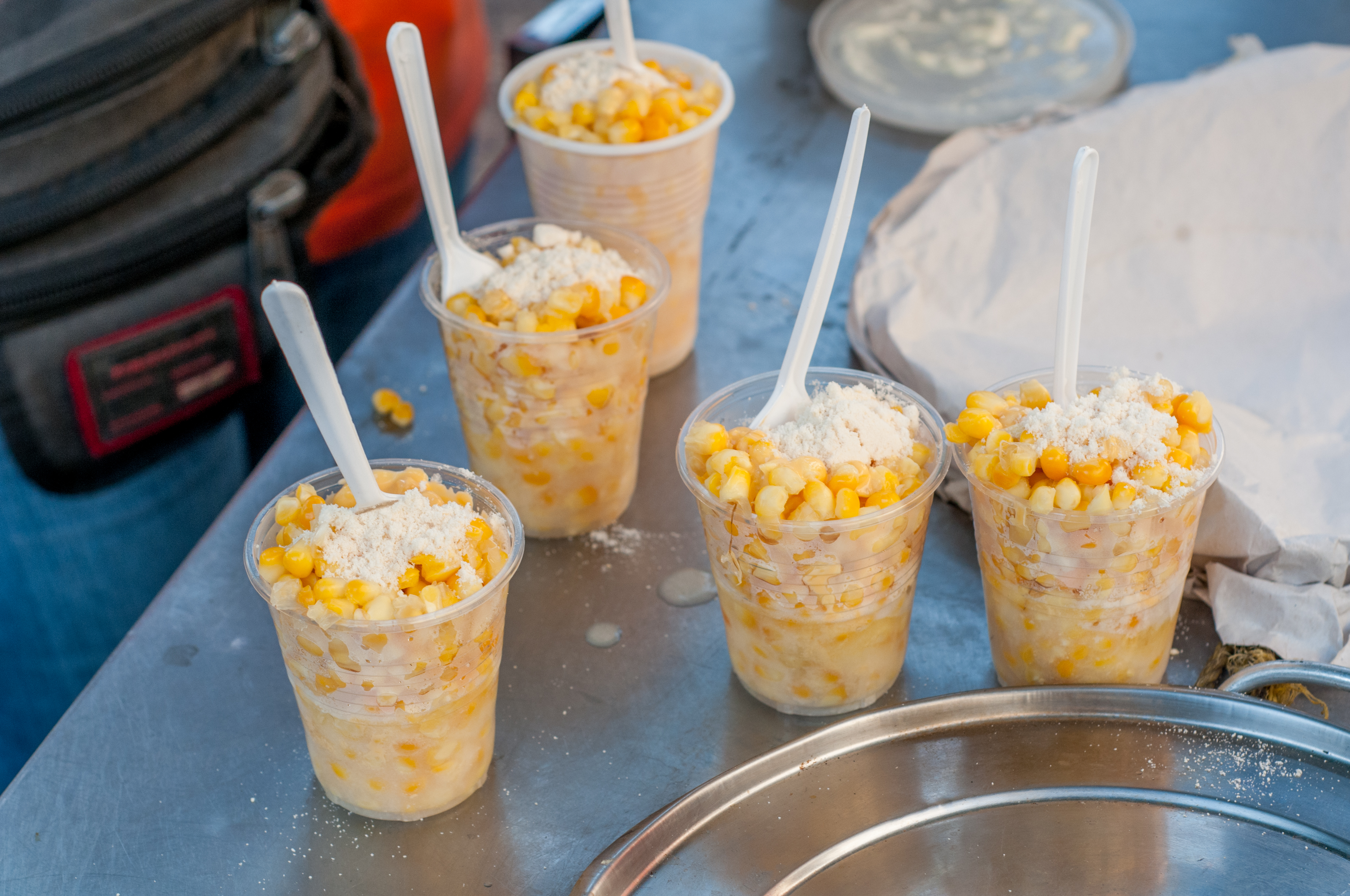 Shelled for sale